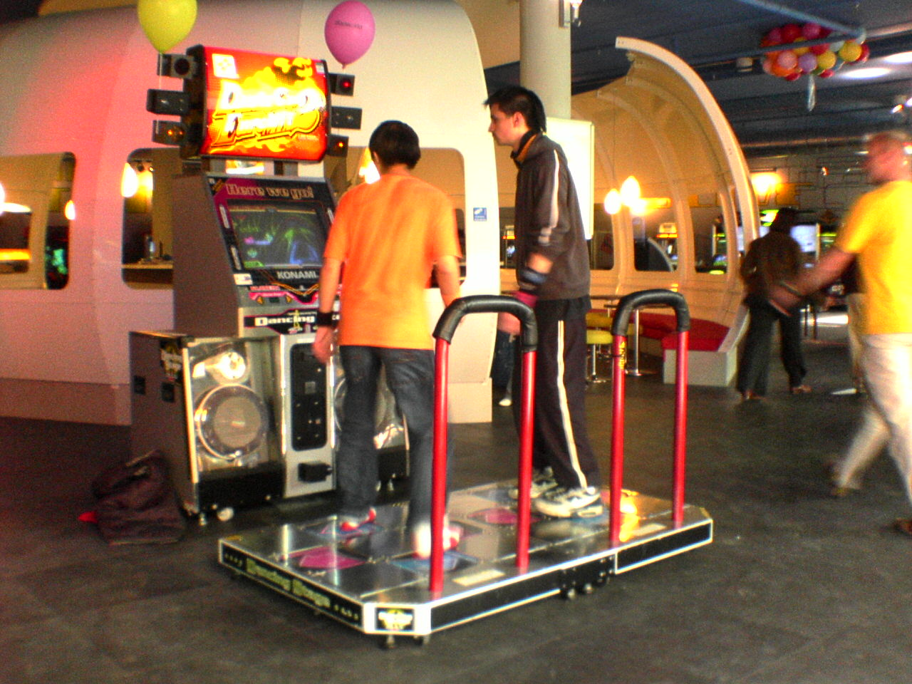 Dancing Stage EuroMix 2 arcade game at Almere, Flevoland, Pays-Bas.